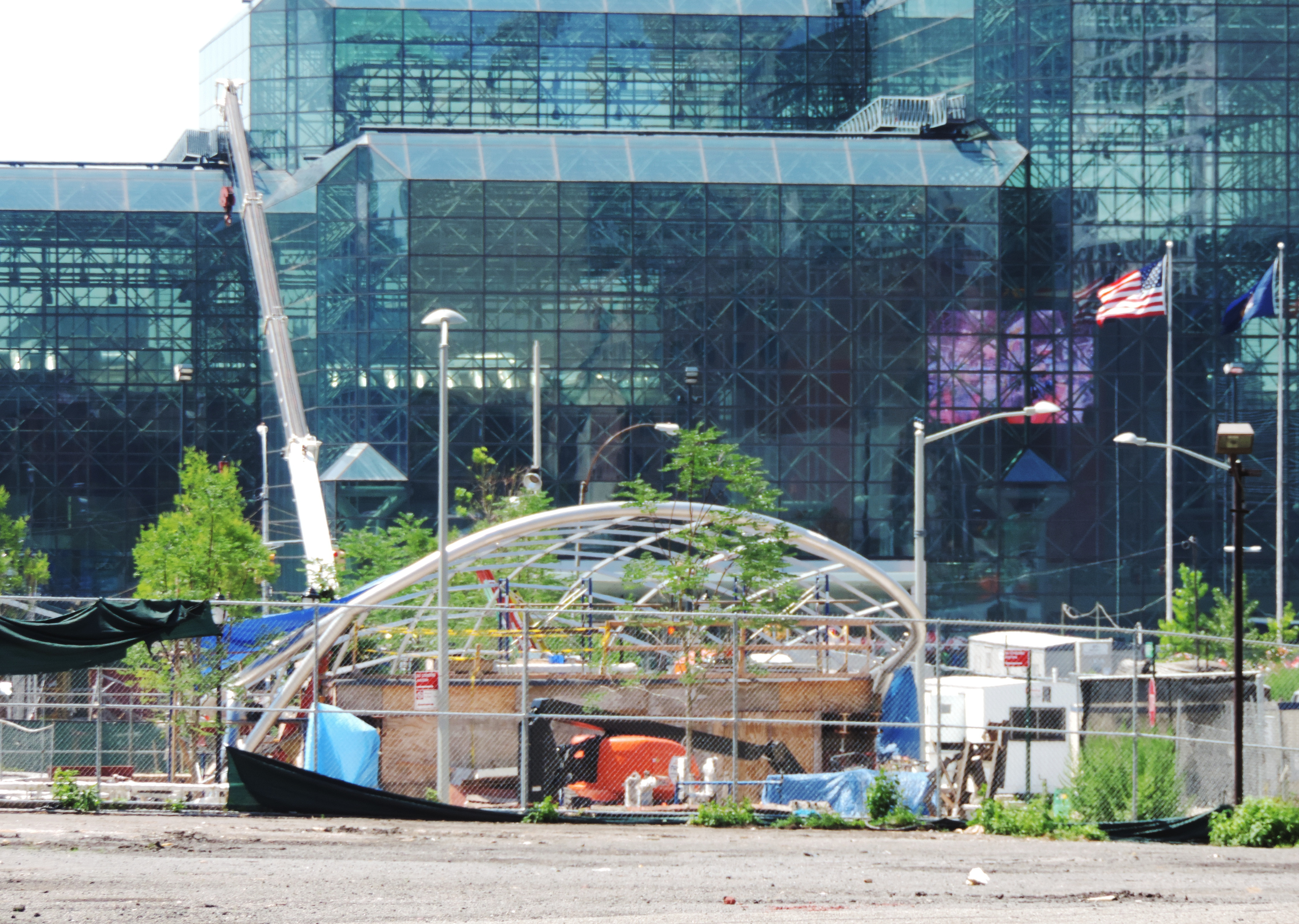 Looking northwest, zoomed, between buildings, from 10th Avenue at the newer, northern canopy on a sunny midday